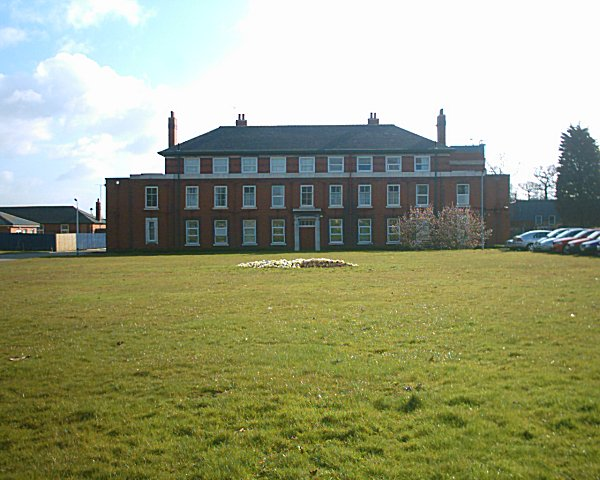 Administration black, Tickhill Road Hospital, Doncaster.